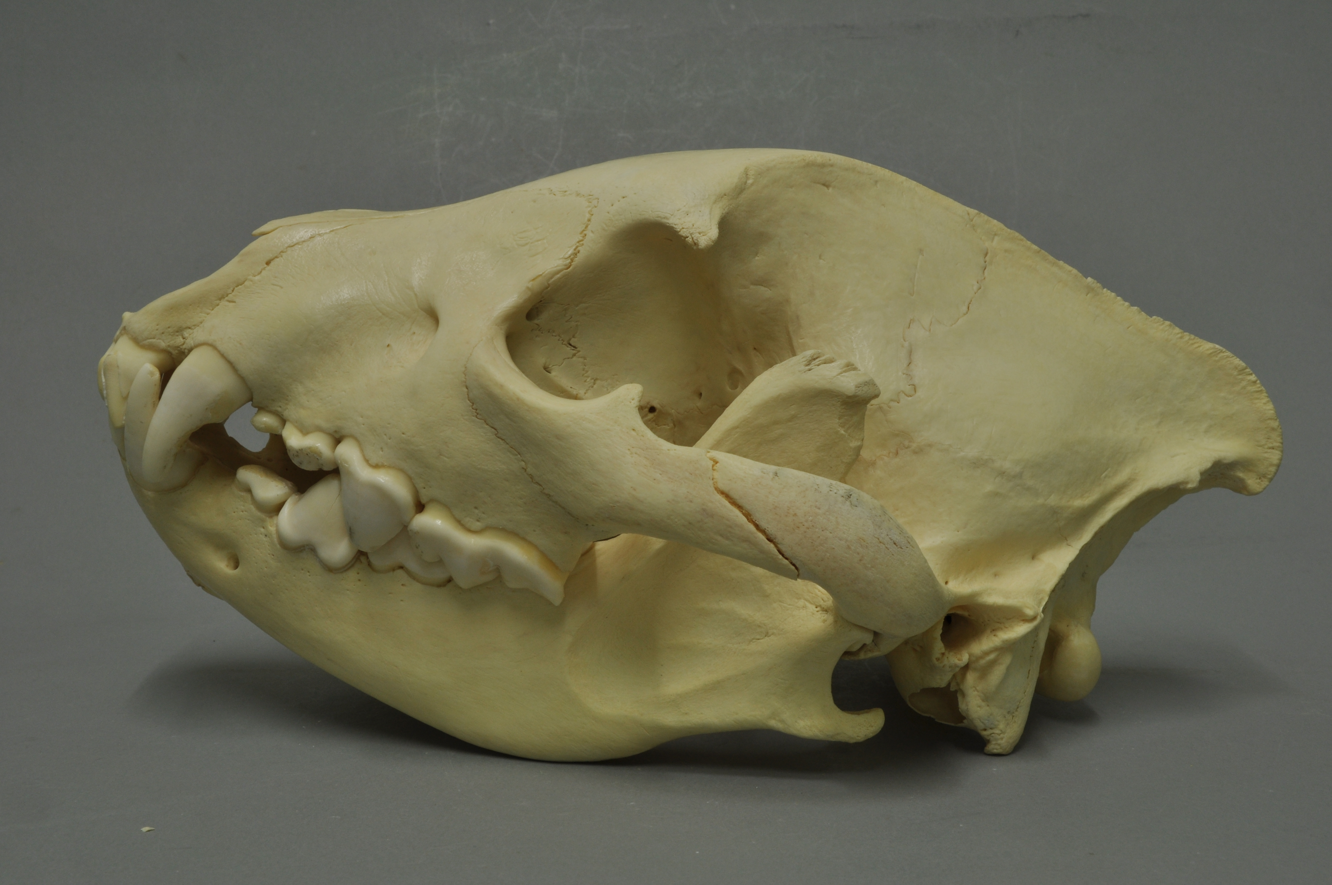 Spotted hyena Crocuta crocuta, skull, Coll. Museum Wiesbaden